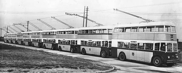 A delivery photo of 10 Ipswich trolleybuses. The photo was taken in Wright Road, alongside the Ipswich Priory Heath trolleybus depot. At the front of the lineup is no 76, PV4542, a 1937 Ransomes with Massey H24/24R body.